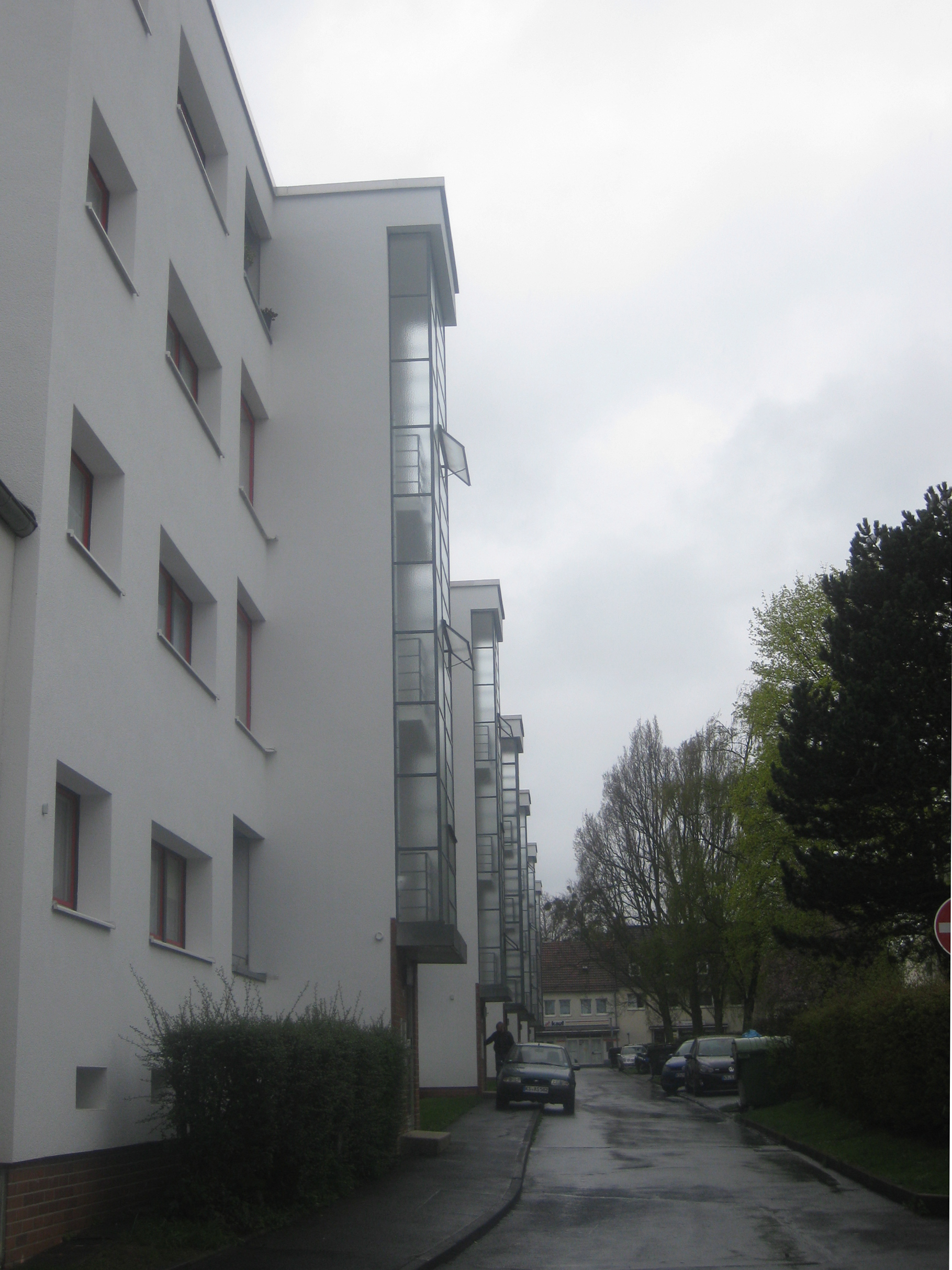 Rothenberg estate in Kassel